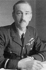 This image is a digitized photograph of Air Commodore (later Air Chief Marshal Sir) Alec Coryton. The image was taken from where it was marked as Crown Copyright. I have performed some minor digitial enhancements. Coryton is shown wearing as an air commodore's uniform, a rank he was promoted from in June 1943 and so the photograph is more than 50 years old. Therefore it is now in the public domain. I release my changes to the public domain.